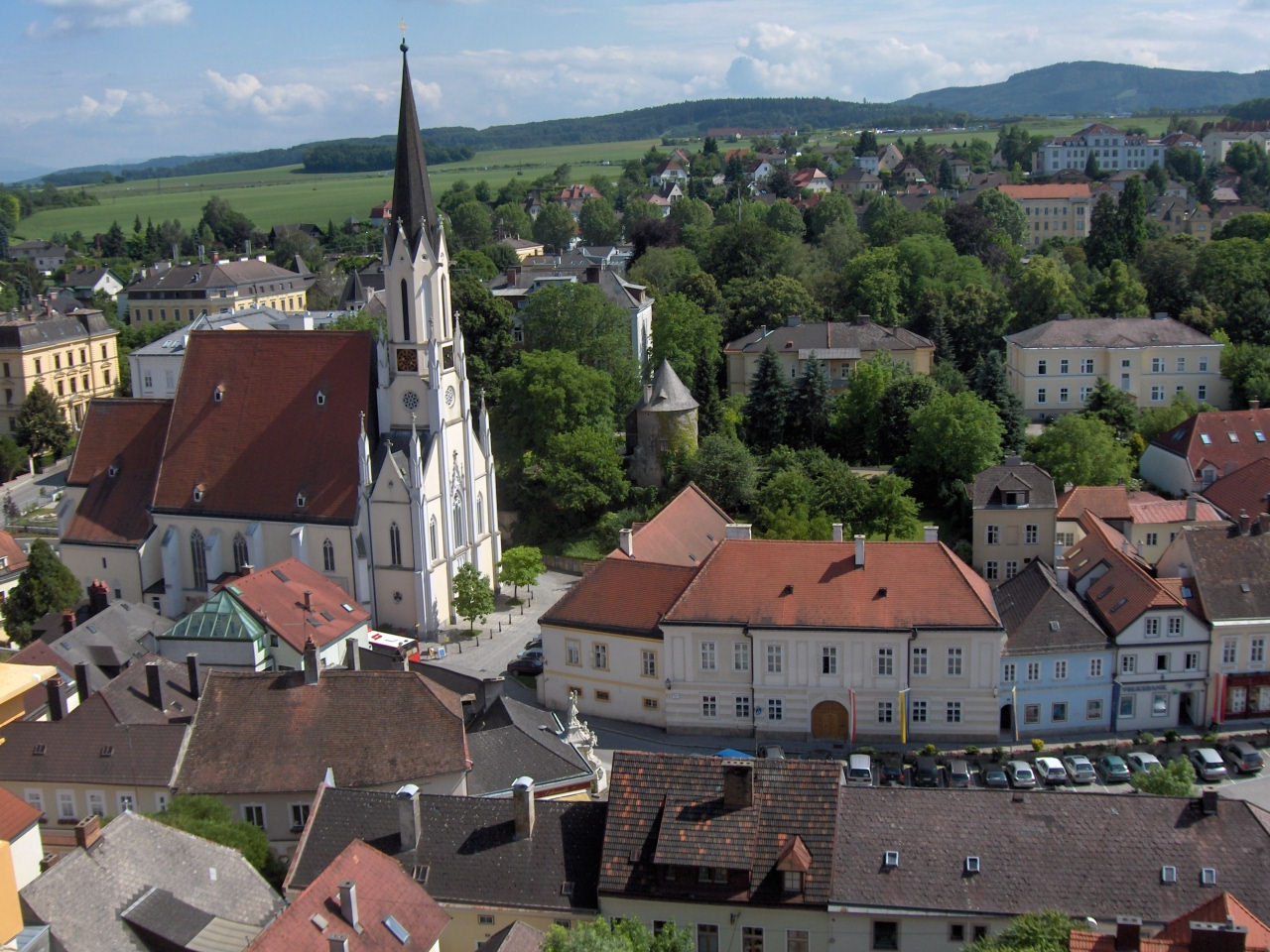 Melk with its Gothic parish church (and Neo-Gothic tower), as seen from the Melk Abbey, Austria